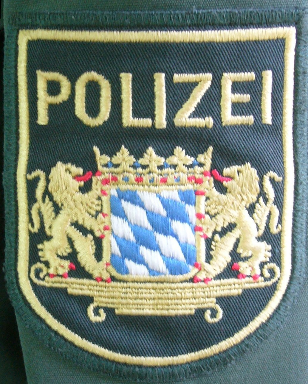 Patch with COA of the Bavarian Police attached to a green jacket.